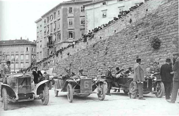 Trieste-Opicina hillclimb on 19 June 1927. Starting lineup in the "turismo/oltre 2000" class. From left: #4 is Carlo Strasser in Alfa Romeo RLSS, #6 is Filippo Artelli in Lancia Lambda and #1 is Gildo Strazza in Lancia Lambda VII.Results from Tapper book "Amateur Racing"